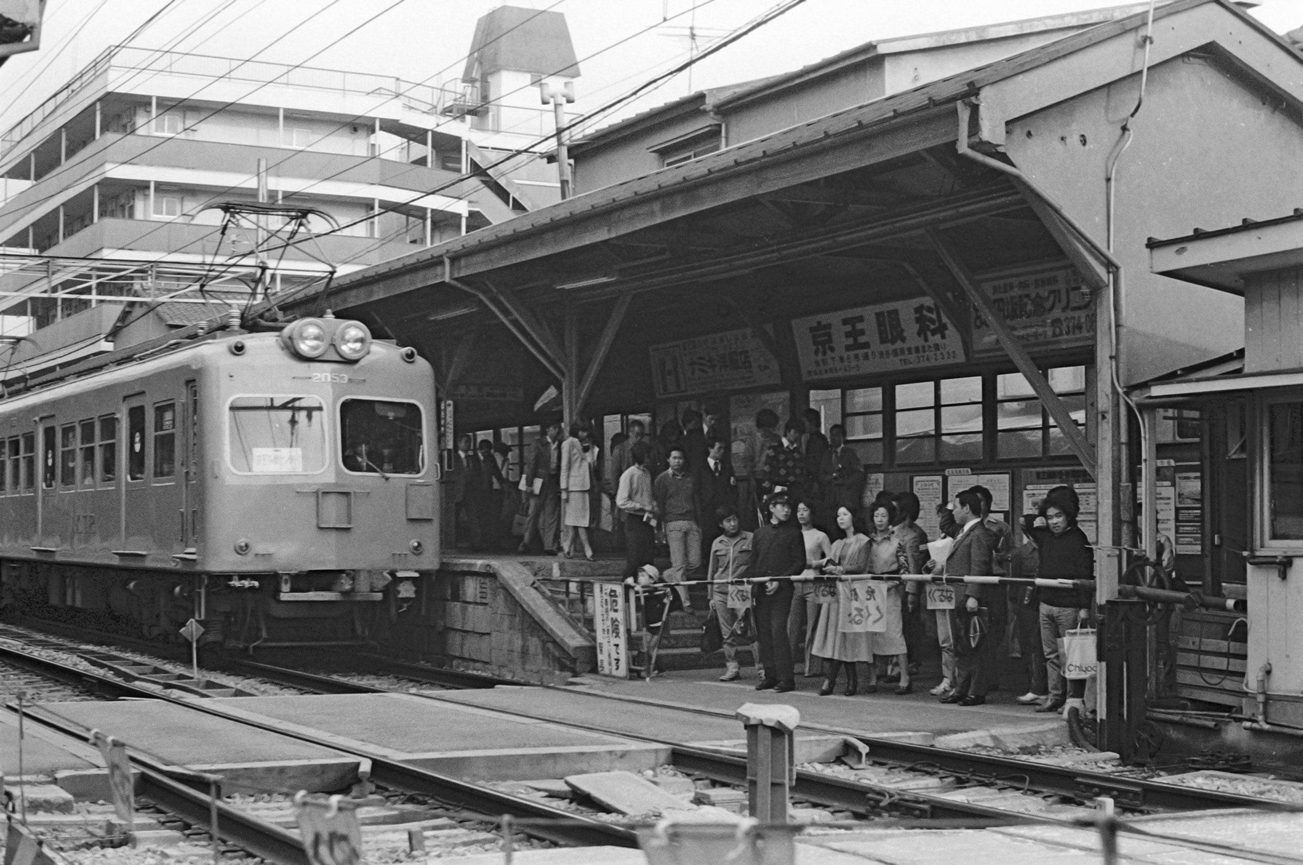 Former Hatagaya Station of Keio Teito Electric Railway of the last day of service.